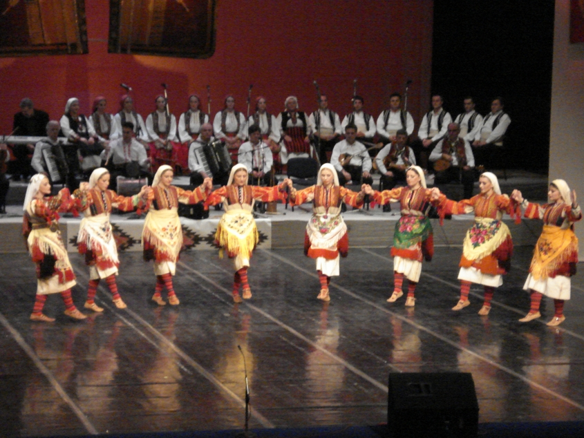 Tanec (Танец) the award winning folklore ensemble from Skopje, Republic of Macedonia. author Chajeshukarie 13:34, 27 March 2007 (UTC)